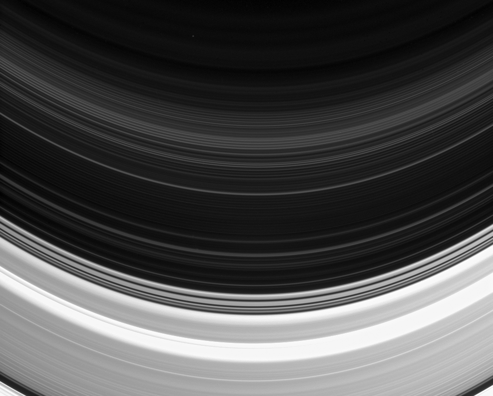 Not all of Saturn's rings are created equal: here the C and D rings appear side-by-side, but the C ring, which occupies the bottom half of this image, clearly outshines its neighbor. The D ring appears fainter than the C ring because it is comprised of less material. However, even rings as thin as the D ring can pose hazards to spacecraft. Given the high speeds at which Cassini travels, impacts with particles just fractions of a millimeter in size have the potential to damage key spacecraft components and instruments. Nonetheless, near the end of Cassini's mission, navigators plan to thread the spacecraft's orbit through the narrow region between the D ring and the top of Saturn's atmosphere. This view looks toward the unilluminated side of the rings from about 12 degrees below the ringplane. The image was taken in visible light with the Cassini spacecraft narrow-angle camera on Feb. 11, 2015. The view was acquired at a distance of approximately 372,000 miles (599,000 kilometers) from Saturn and at a Sun-Saturn-spacecraft, or phase, angle of 133 degrees. Image scale is 2.2 miles (3.6 kilometers) per pixel. The Cassini Solstice Mission is a joint United States and European endeavor. The Jet Propulsion Laboratory, a division of the California Institute of Technology in Pasadena, manages the mission for NASA's Science Mission Directorate, Washington, D.C. The Cassini orbiter was designed, developed and assembled at JPL. The imaging team consists of scientists from the US, England, France, and Germany. The imaging operations center and team lead (Dr. C. Porco) are based at the Space Science Institute in Boulder, Colo. For more information about the Cassini Solstice Mission visit and The original NASA image has been modified by doubling the linear pixel density, cropping and converting from TIFF to JPG format.